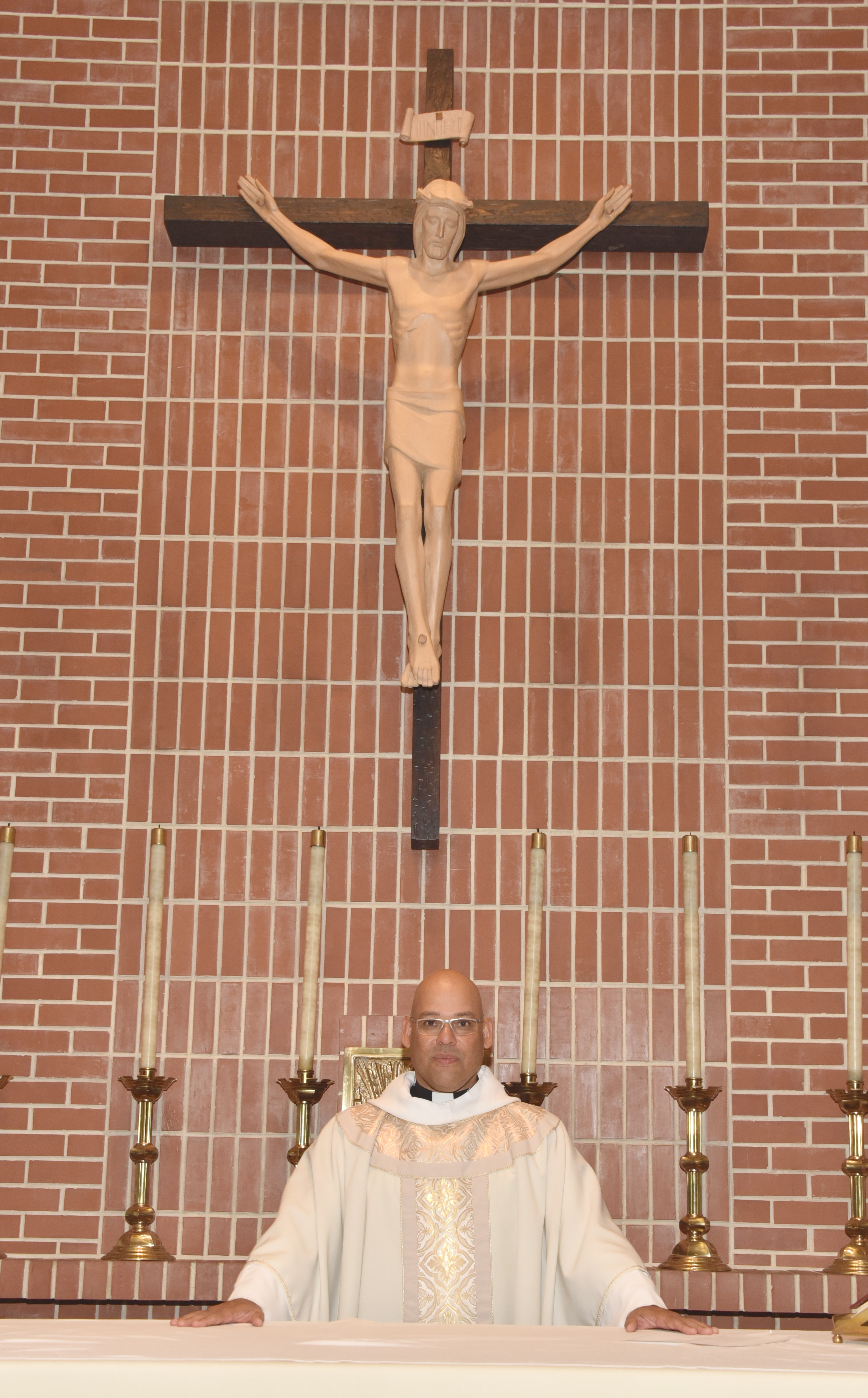 In his parish church in Southeast Florida